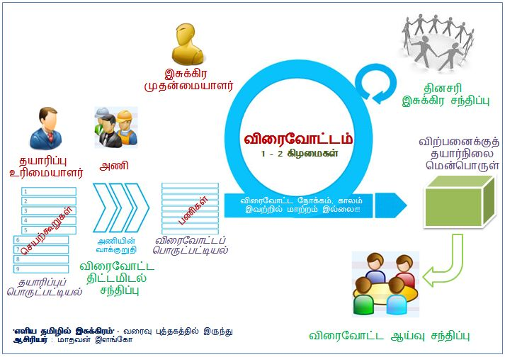 I'm the owner of this work.